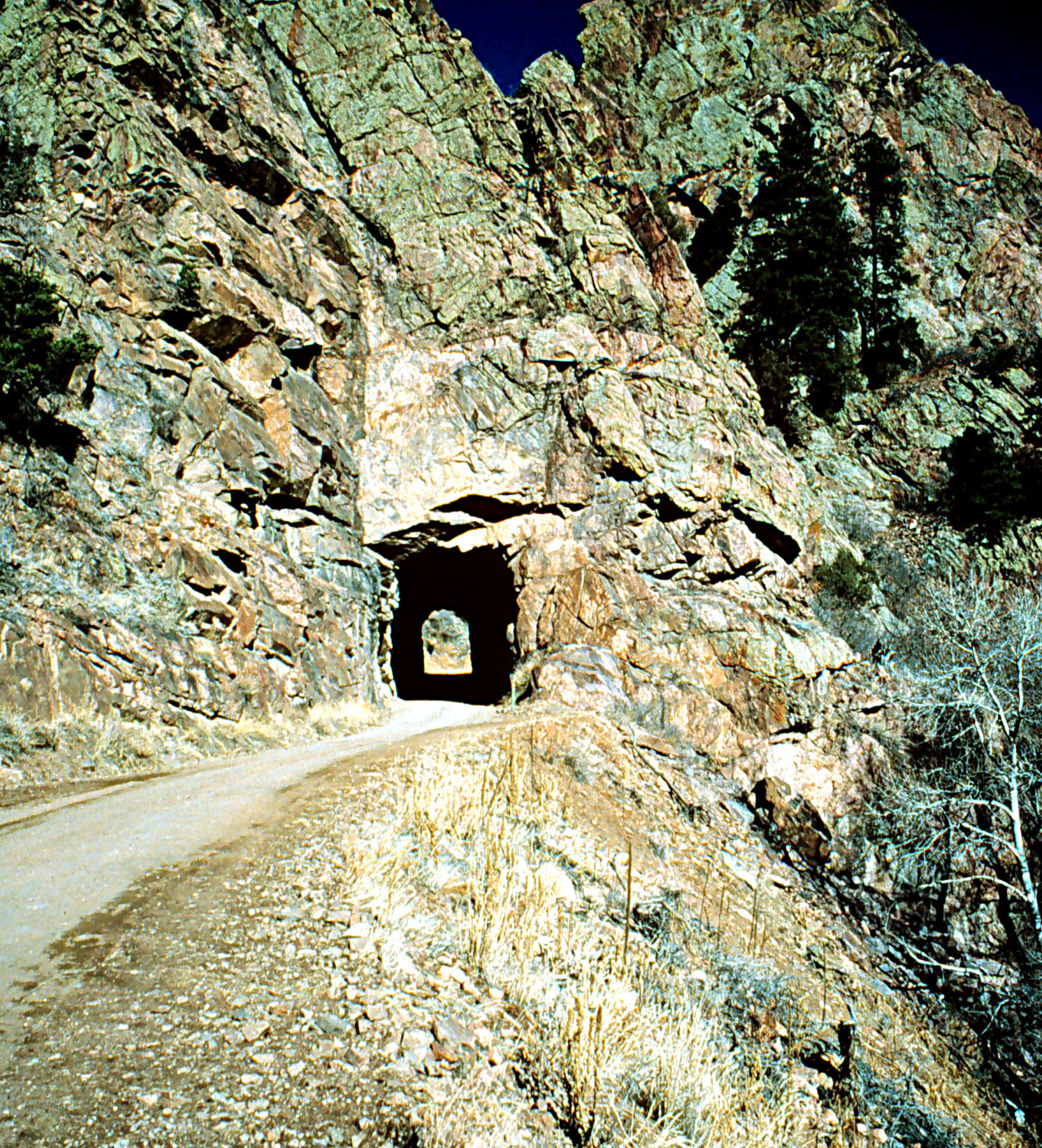 Tunnel 1 (lower) on the former Florence & Cripple Creek Railroad in Colorado. Today used by Phantom Canyon road between Florence and Victor.